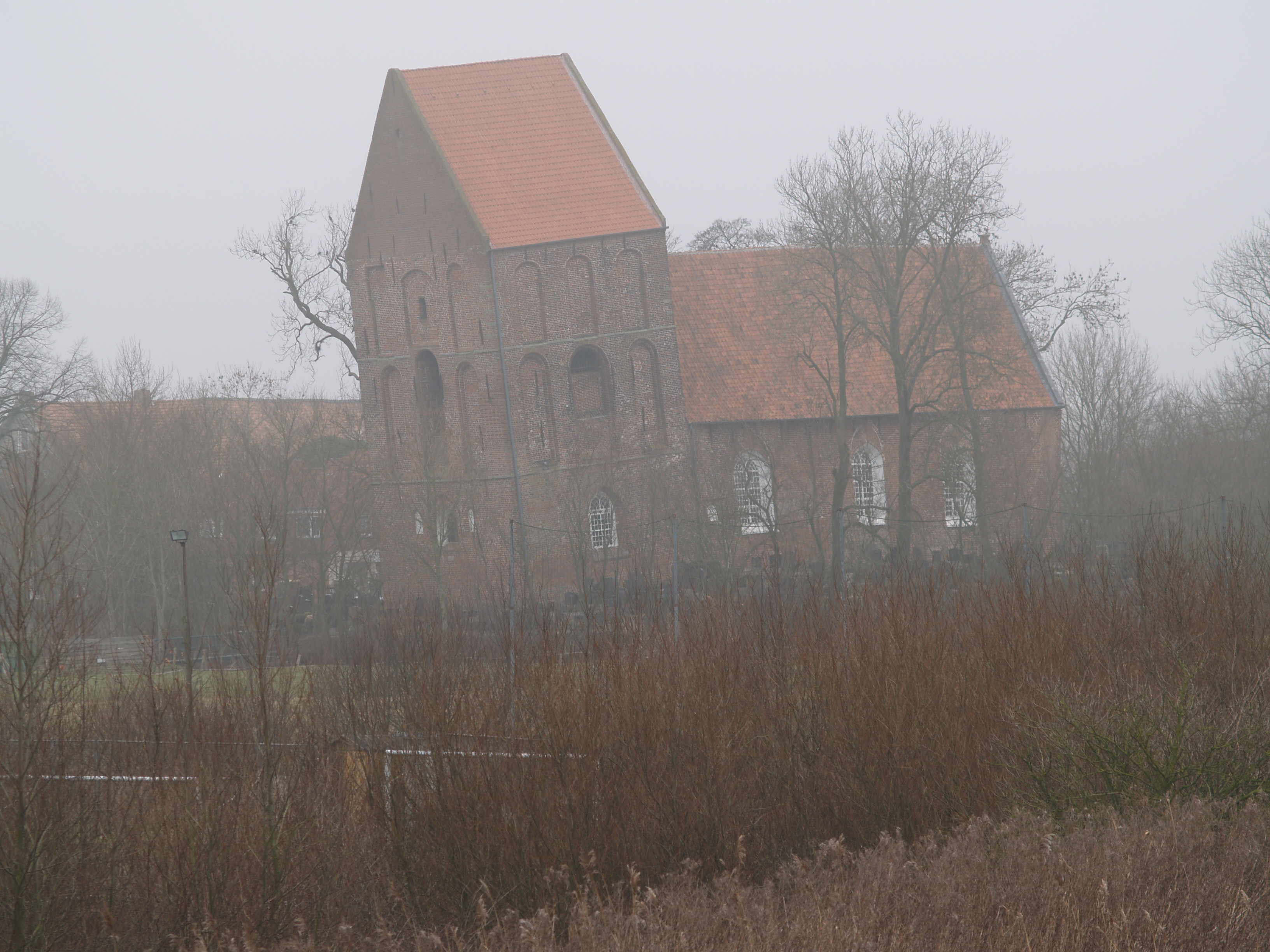 Leaning Tower of Suurhusen in East Frisia, Germany